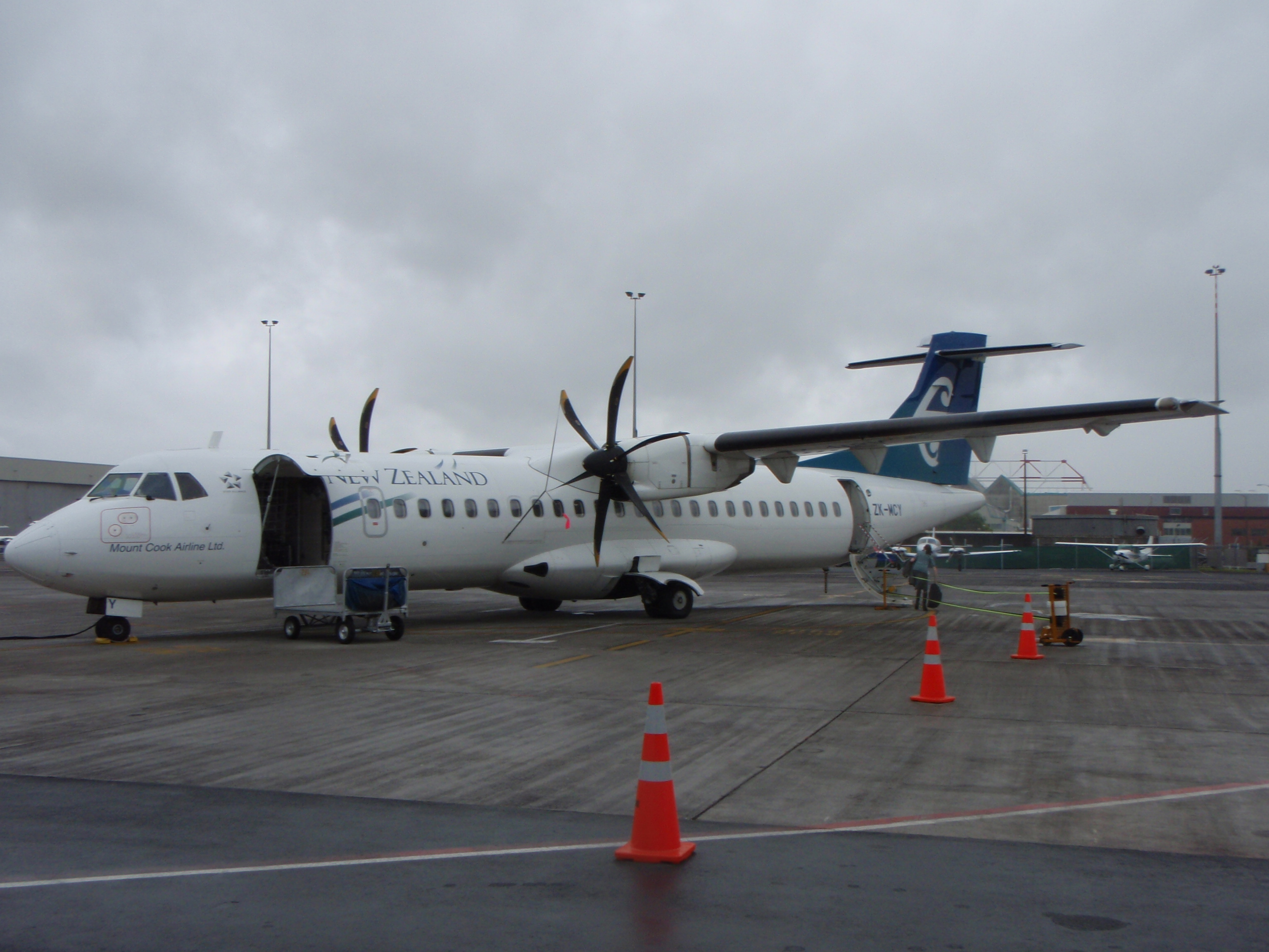 ZK-MCY ATR72-212A parked at gate 48, Auckland International Airport Regional Terminal